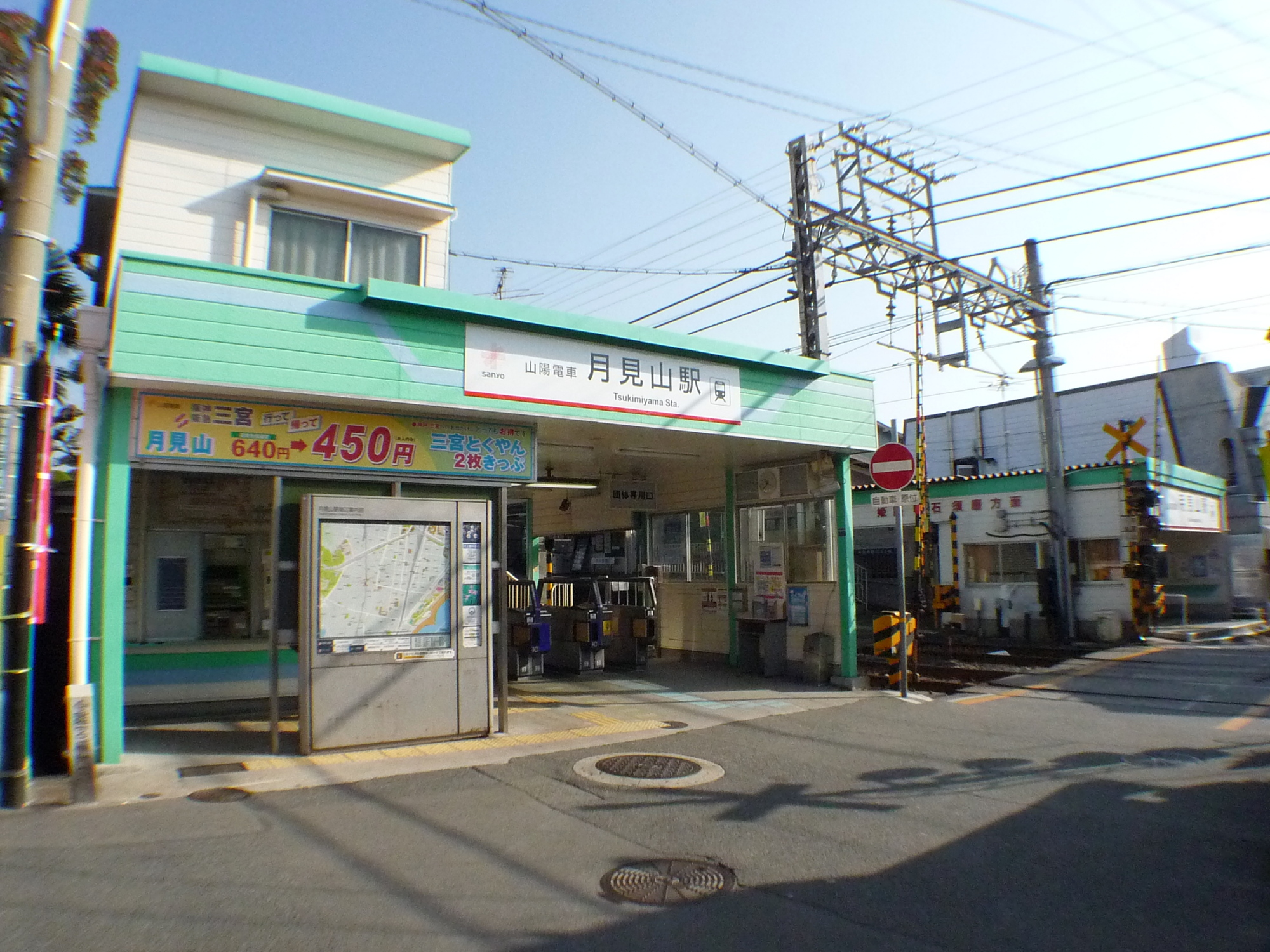 Tsukimiyama Station, Sanyo Electric Rairway.